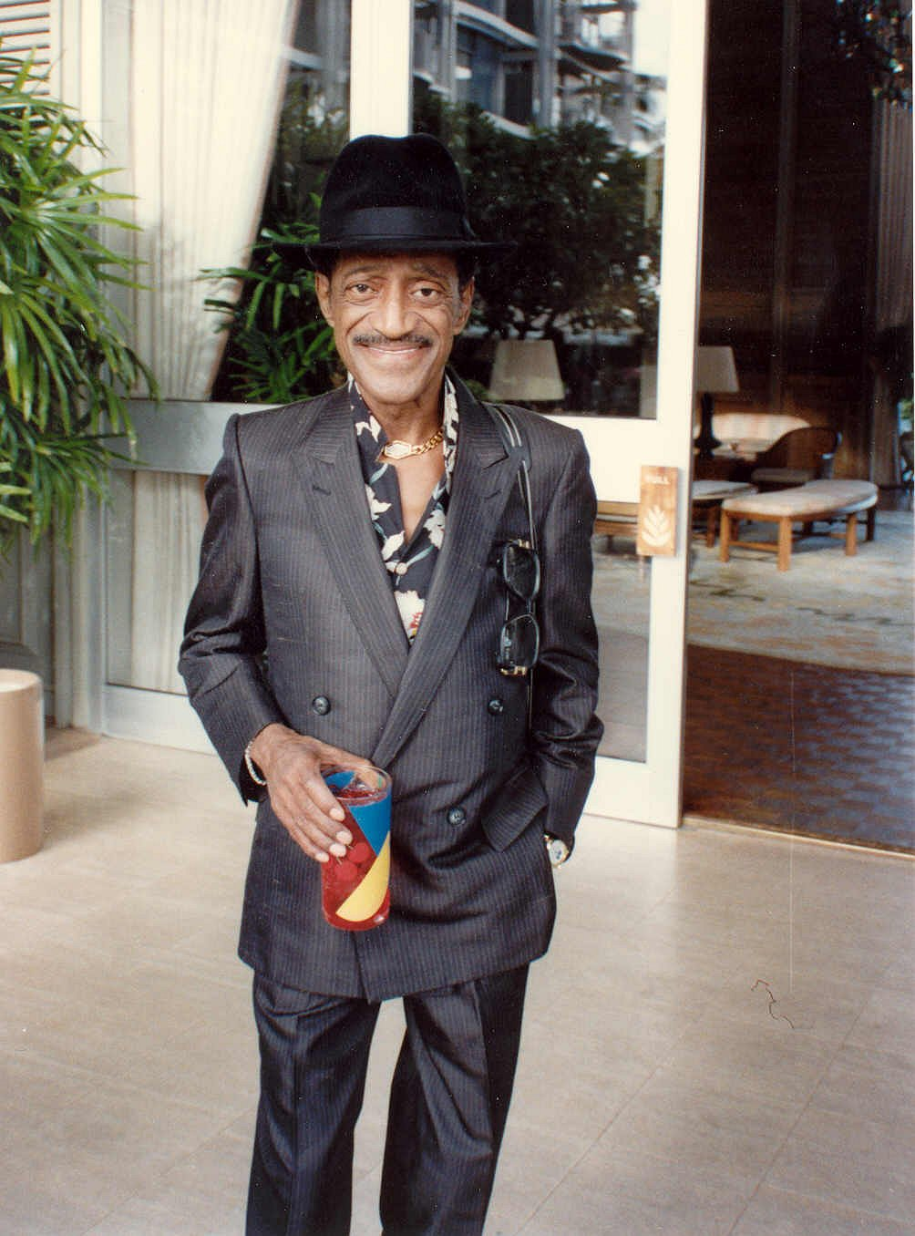 Sammy Davis, Jr.